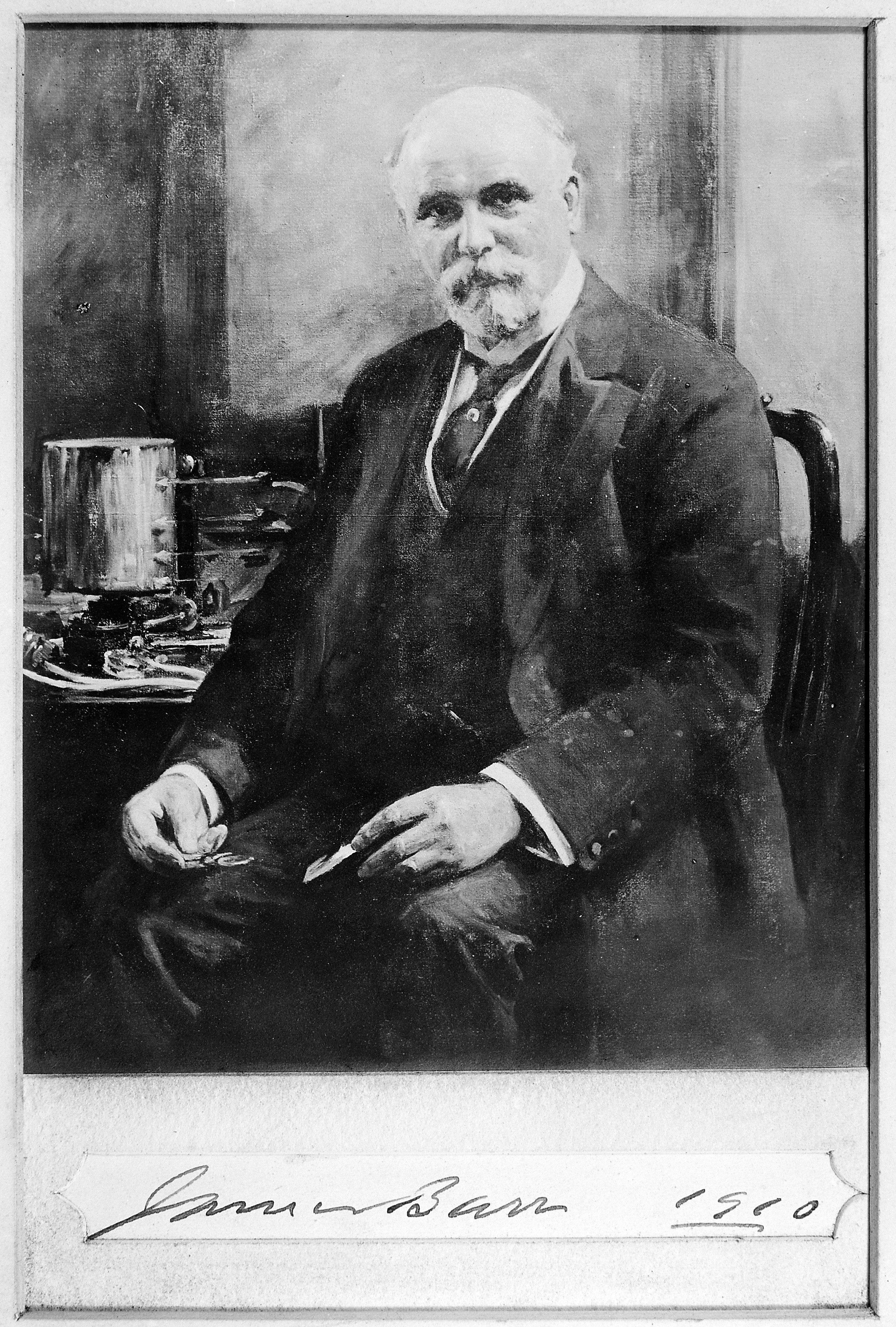 Sir James Barr, Photograph in the possession of the Society of Medical Officers of Health. Wellcome Images Keywords: James Barr